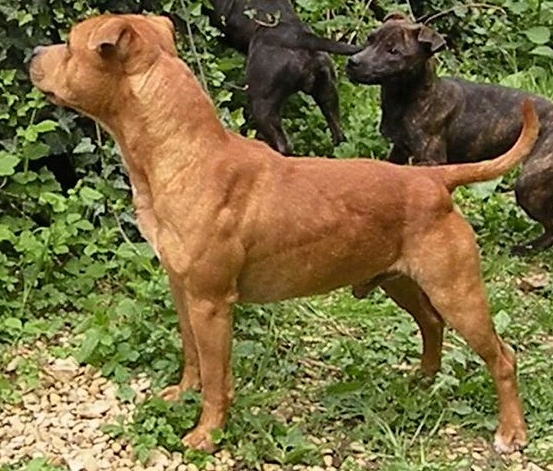 Staffordshire Bull Terrier